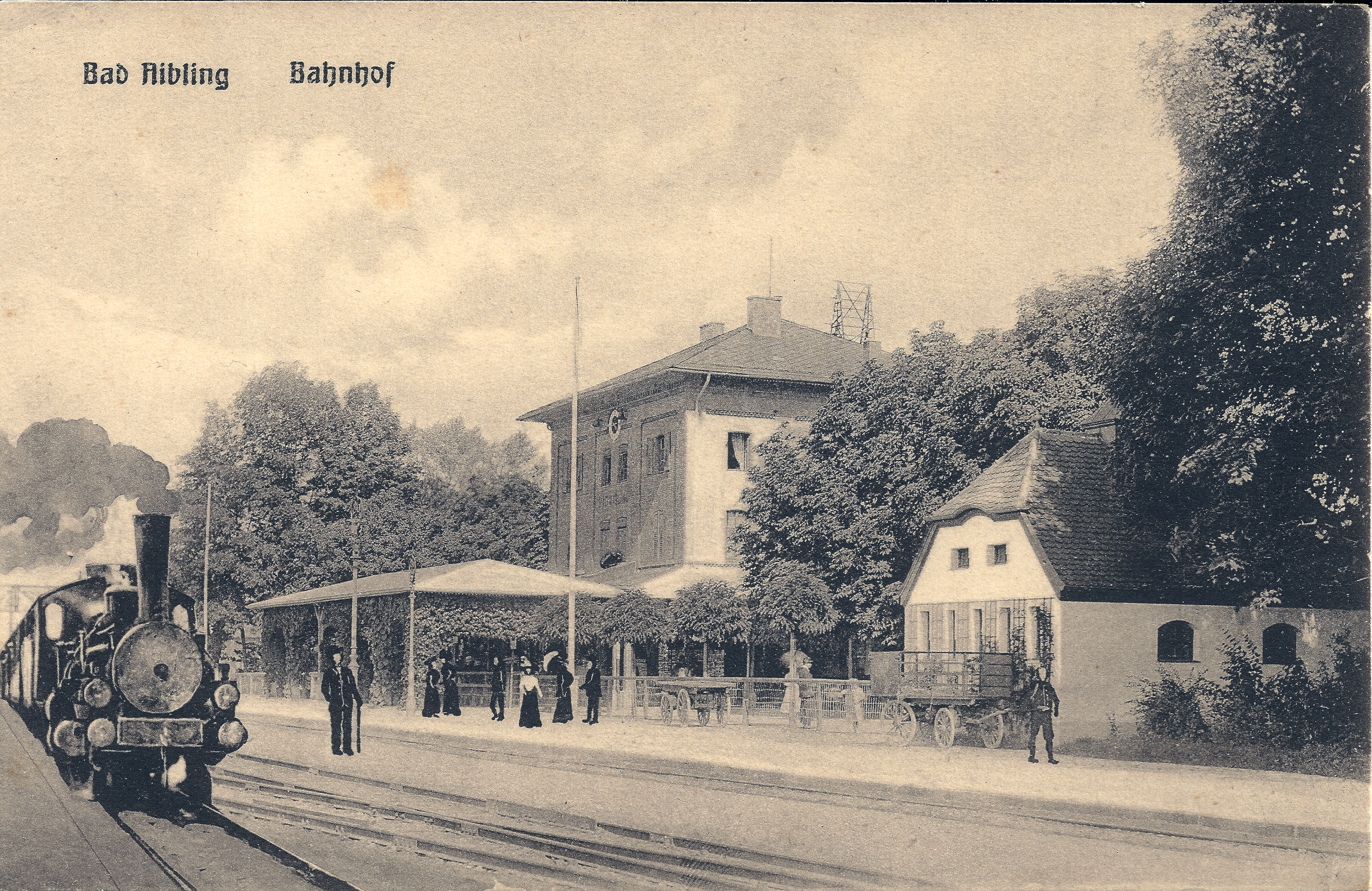 Railway station of Bad Aibling, Bavaria, Germany, ca. 1900